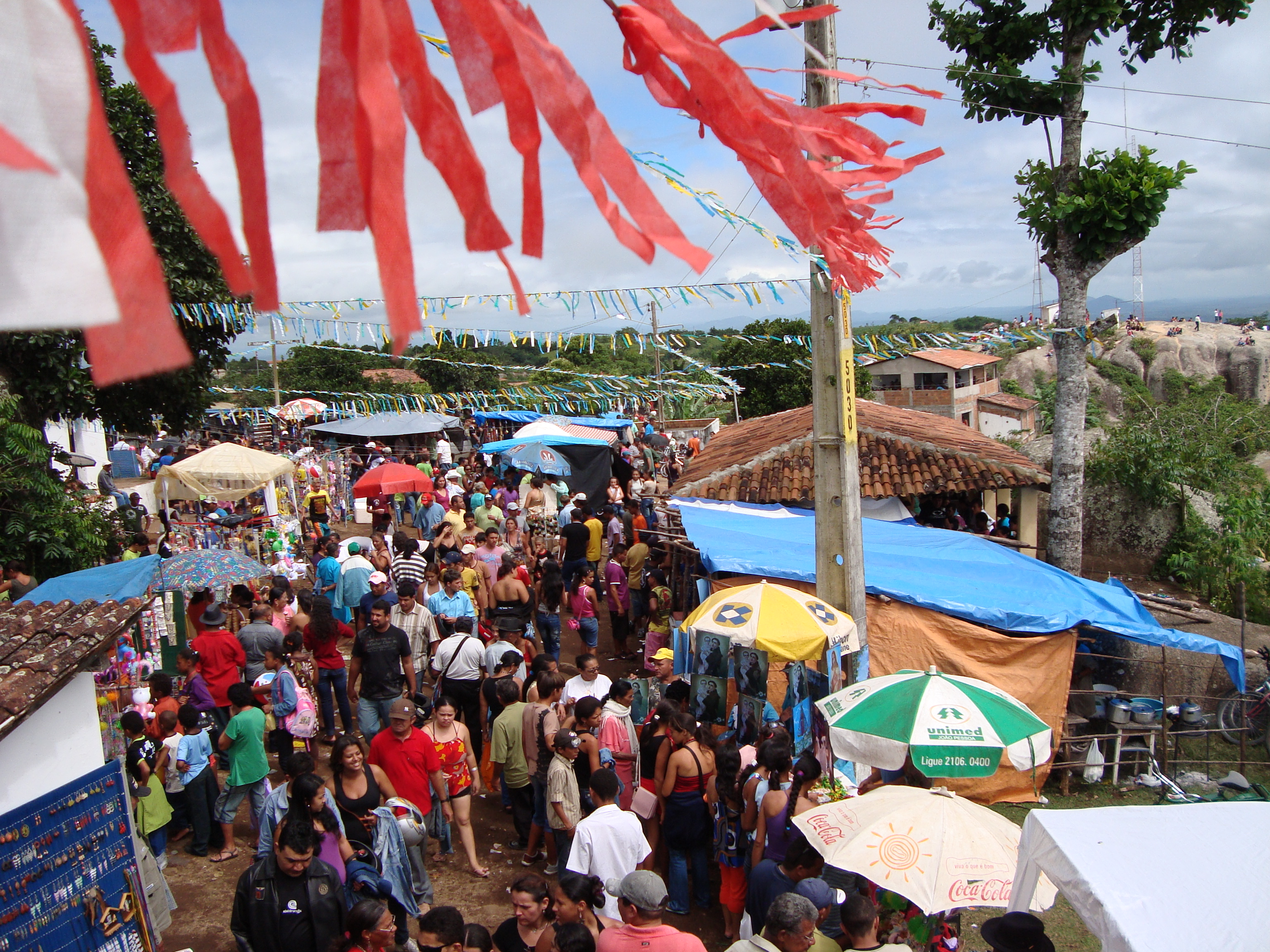 Pedra de Santo Antônio